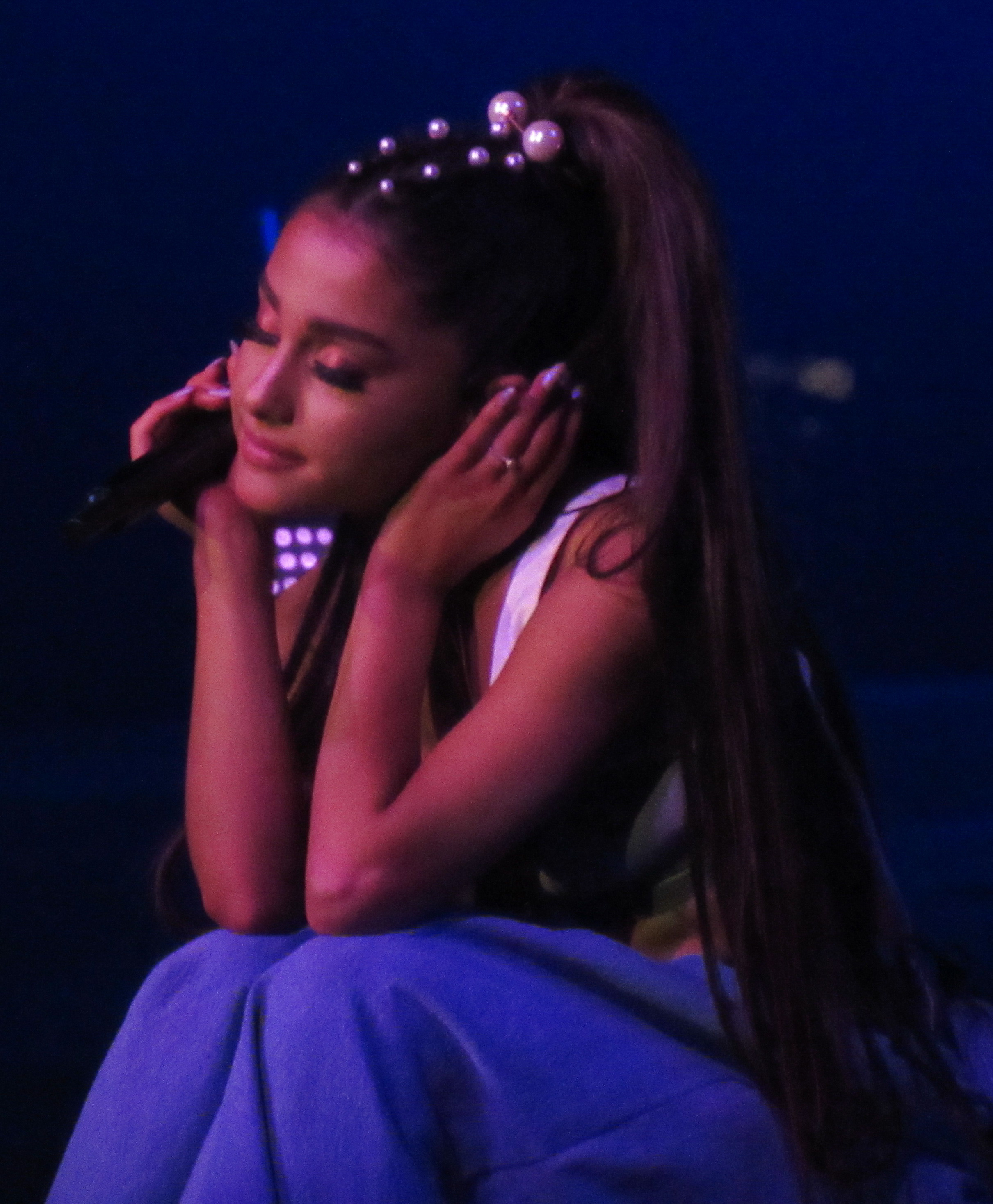 Dangerous Woman Tour 2/19/17 Ariana Grande performing during Dangerous Woman Tour in Manchester, New Hampshire, SNHU Arena, on February 19, 2017.